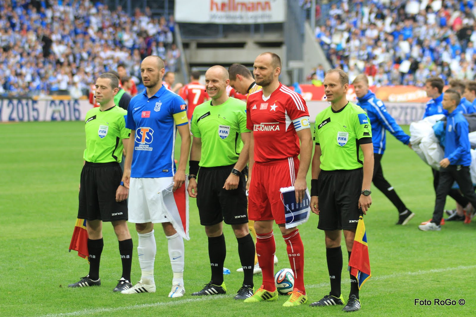 Captains and officials presentation, before Lech Poznań - Wisła Kraków game (Polish Ekstraklasa, 2015-06-07).